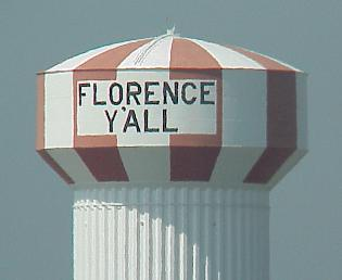 Image of the highly-recognizable water tower in Florence, Kentucky. Photo taken by C. Matthew Curtin of Columbus, Ohio.